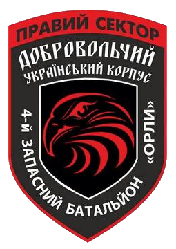 Sleeve patch of the 4th Replacement Battalion for the Ukrainian Volunteer Corps (UVC)